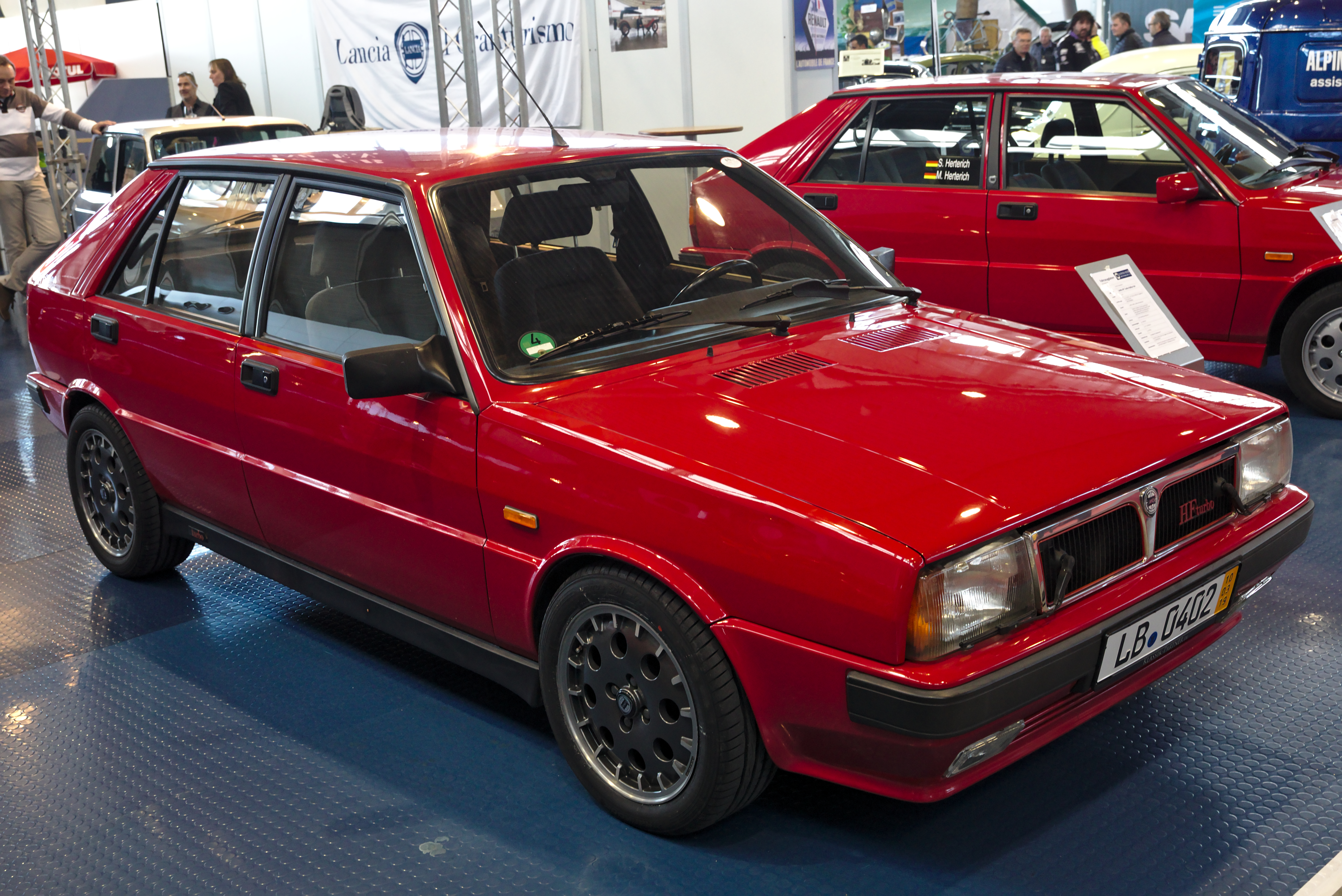 Lancia Delta HF Turbo at Retro Classics 2019